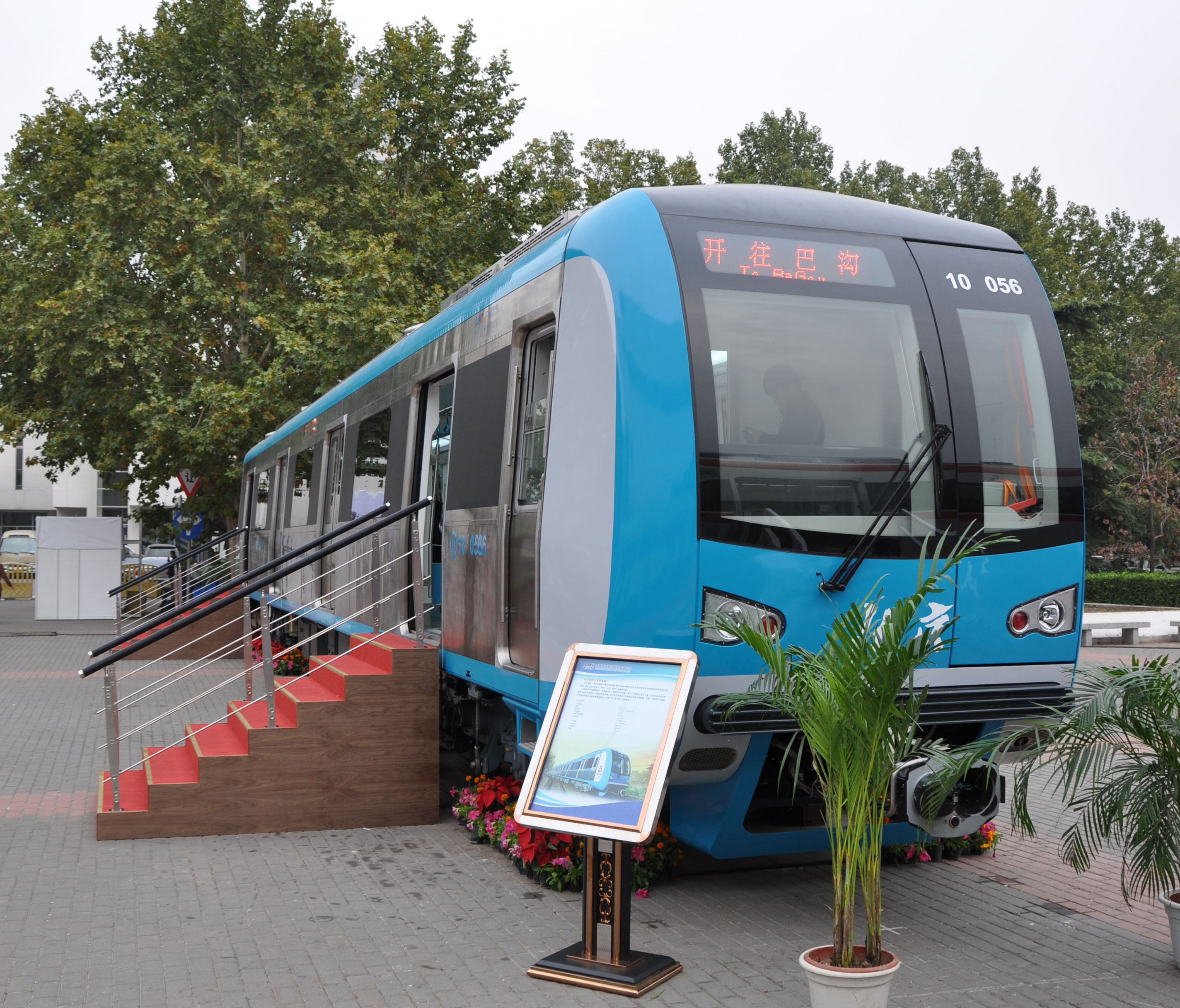 Rolling stock of Line 10, Beijing Subway. Photoed on METRO CHINA 2011.